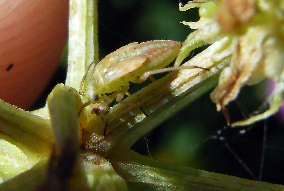 Orthops cf. kalmii (Miridae), nymph, on Levisticum officinale, Lower Saxony (Germany)